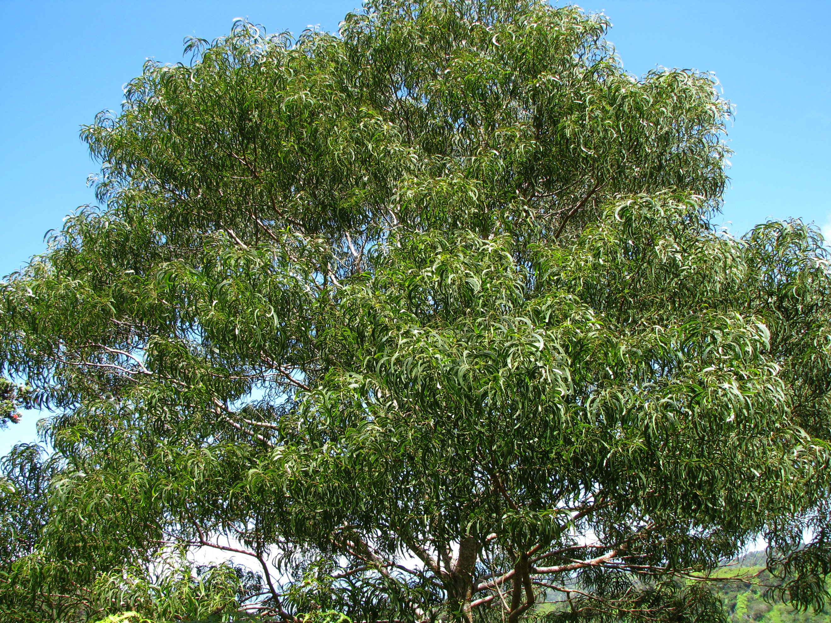 Koa Fabaceae Endemic to the Hawaiian Islands ʻAiea Ridge Trail, Oʻahu Early Hawaiians: Medicinally, koa leaves were placed under a pile of lau hala mats if a person had been in a sick bed for a long time. Leaves were placed on top and spread evenly over the mat to make to person comfortable.The heat that came from the body and the leaves would make the person sweat. More uses can be found at... NPH00014